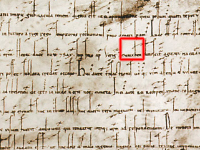 First written mentioning of Munich (Munichen) in the Augsburg Decision by emperor Frederick I Barbarossa